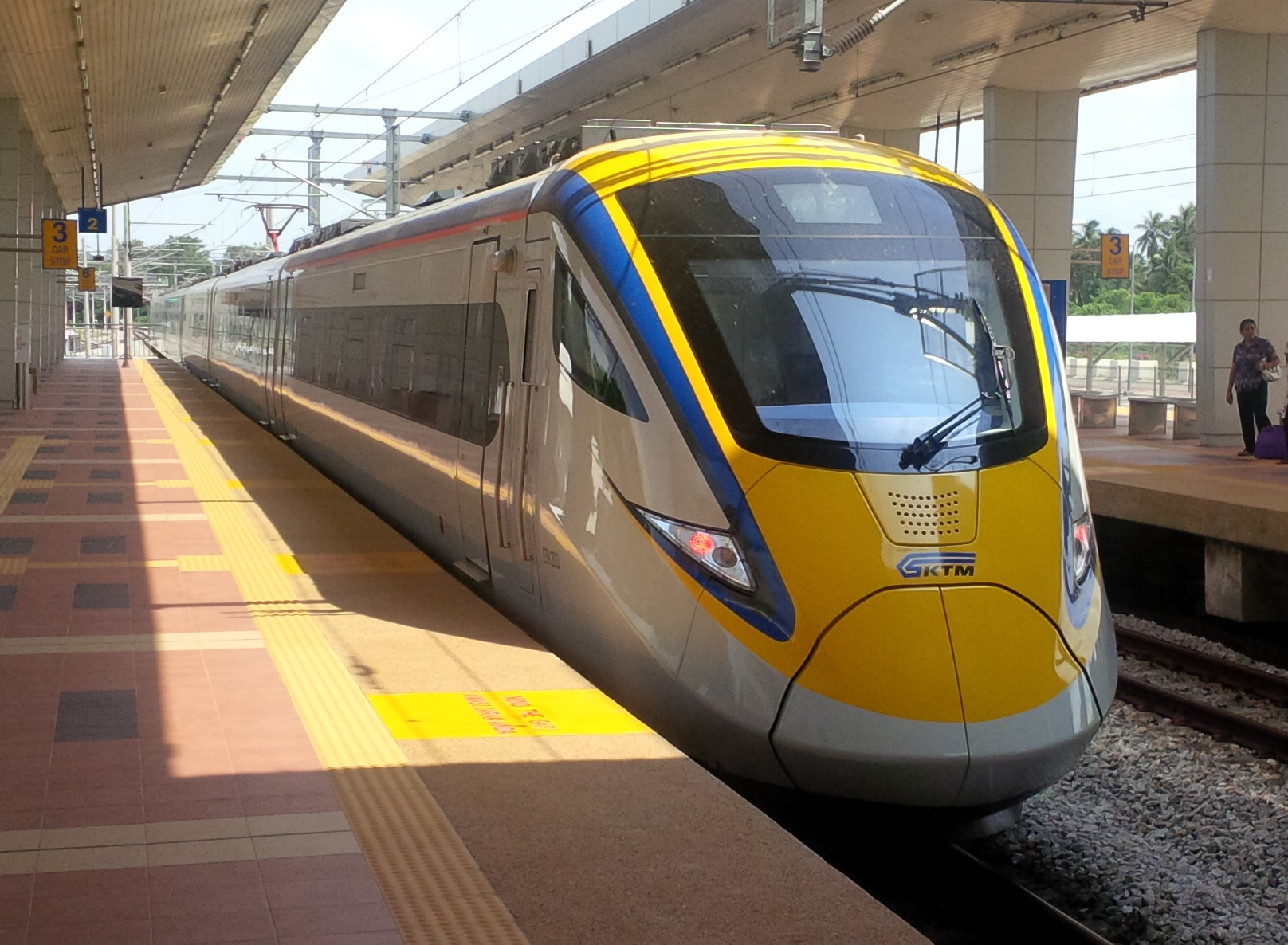 The KTM Class 93 ETS train No 203 leaving Pulau Sebang/Tampin Station heading towards Gemas.